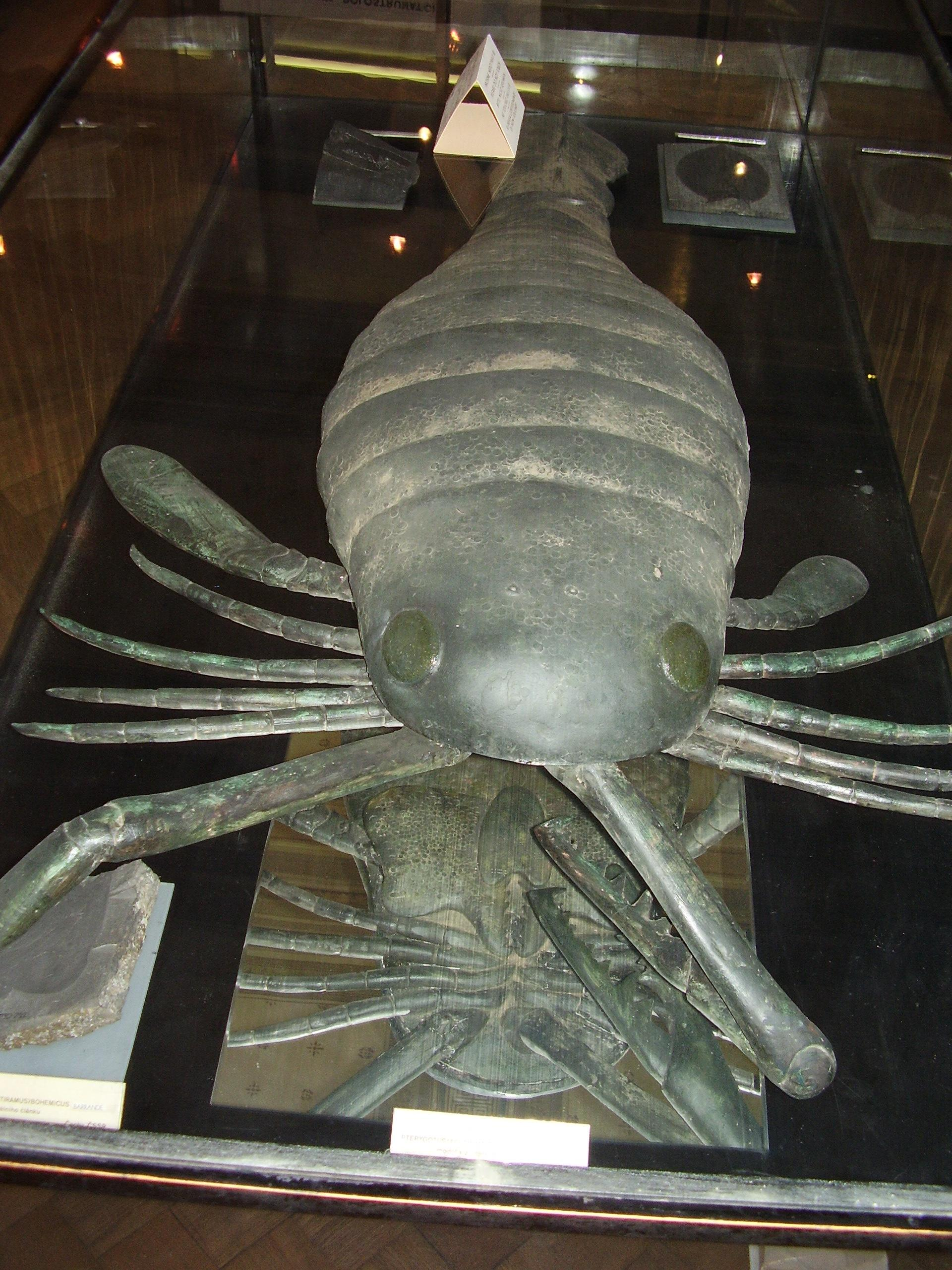 Model of giant eurypterid, National Museum in Prague (2007).